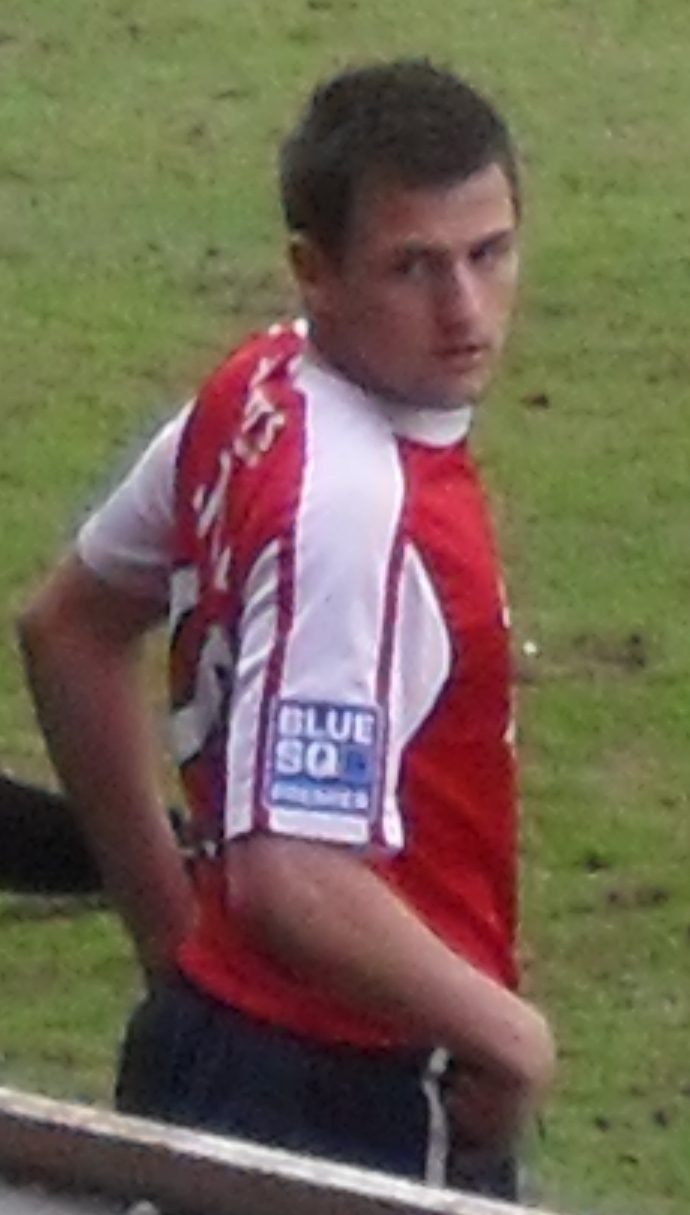 Will Hatfield playing for York City against Eastbourne Borough at Bootham Crescent, York on 12 March 2011